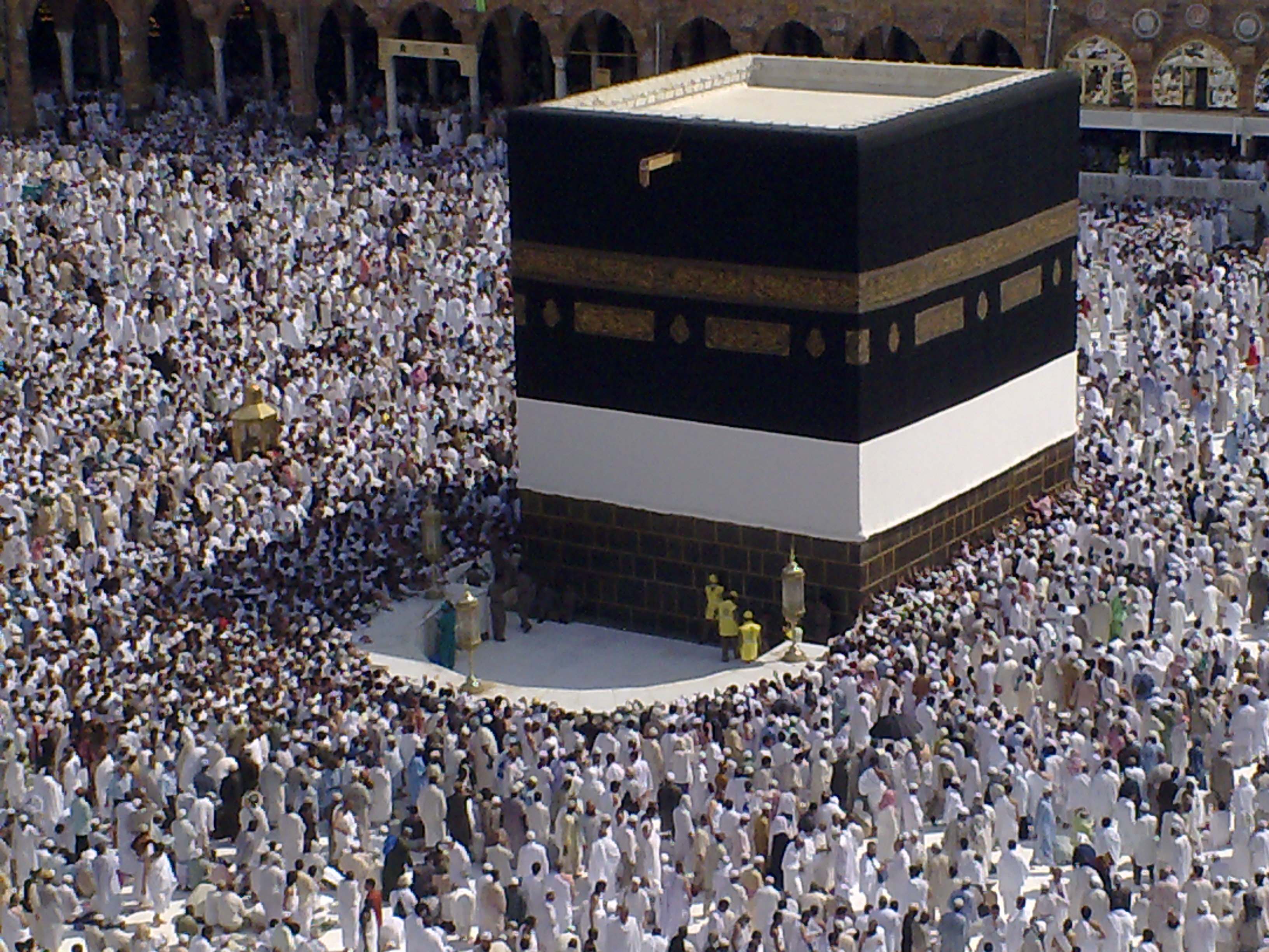 The scene in Mecca.